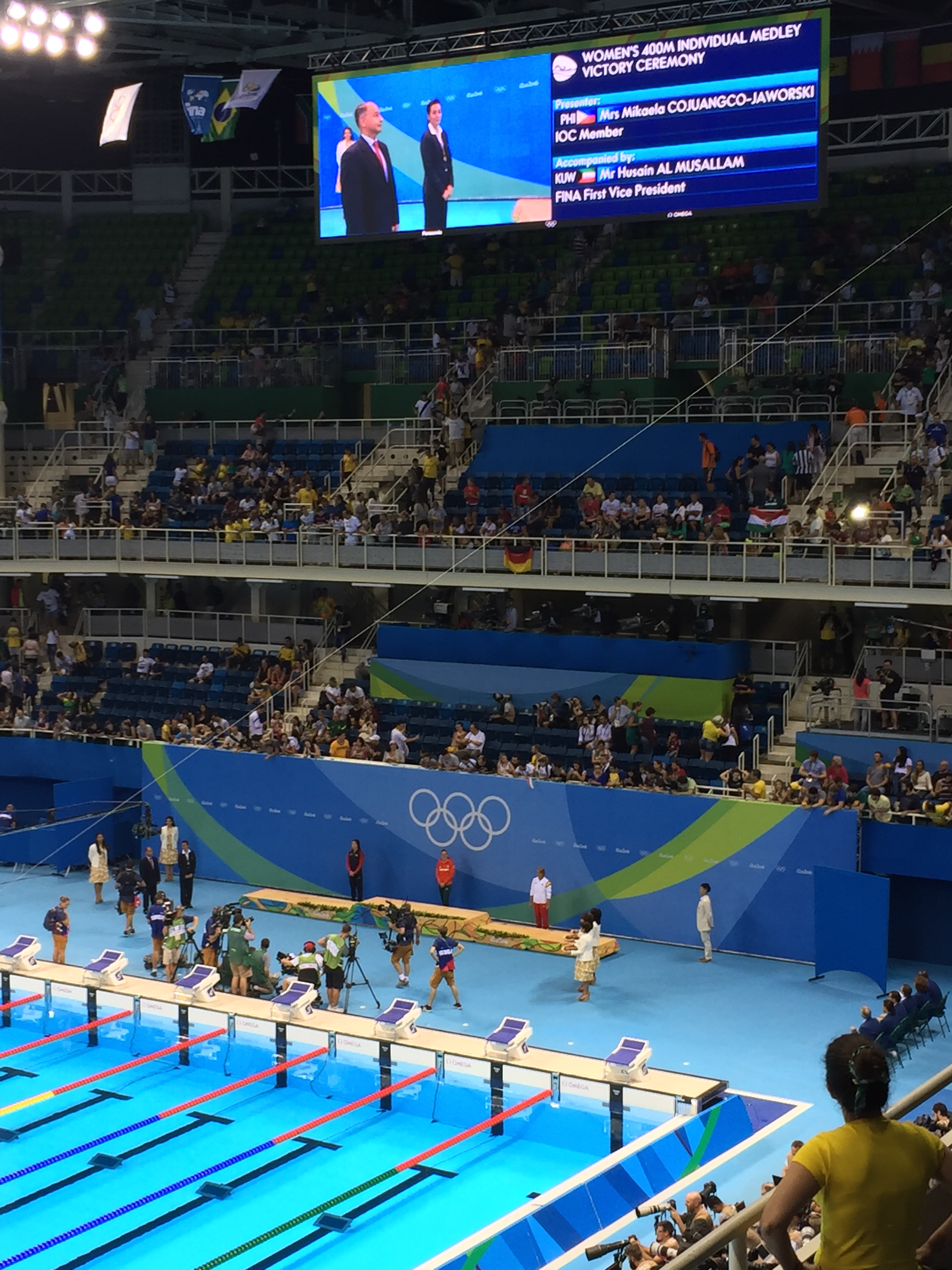 Rio 2016 Olympics - Swimming 6 August evening session